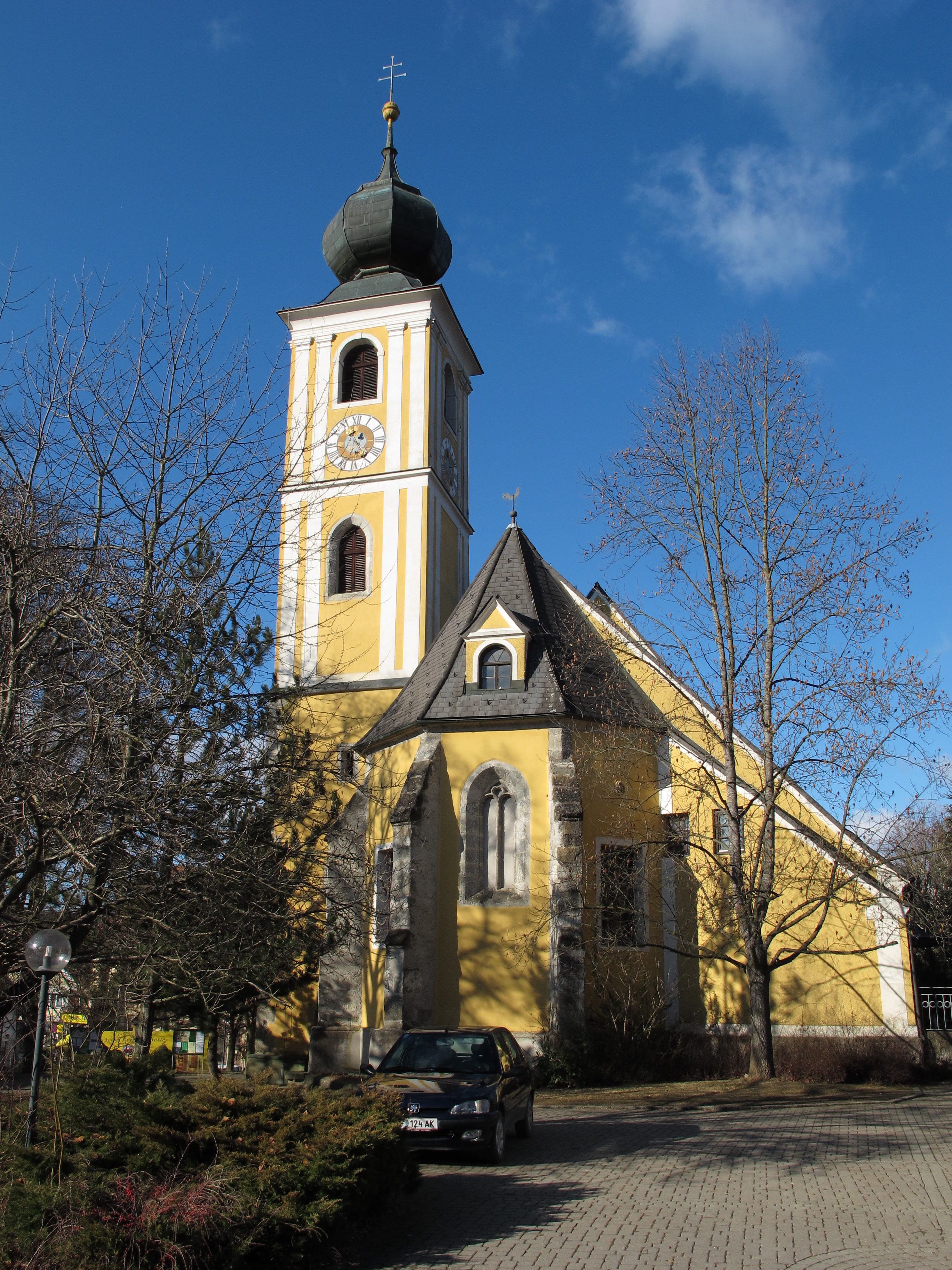 Pfarrkirche Markt Hartmannsdorf